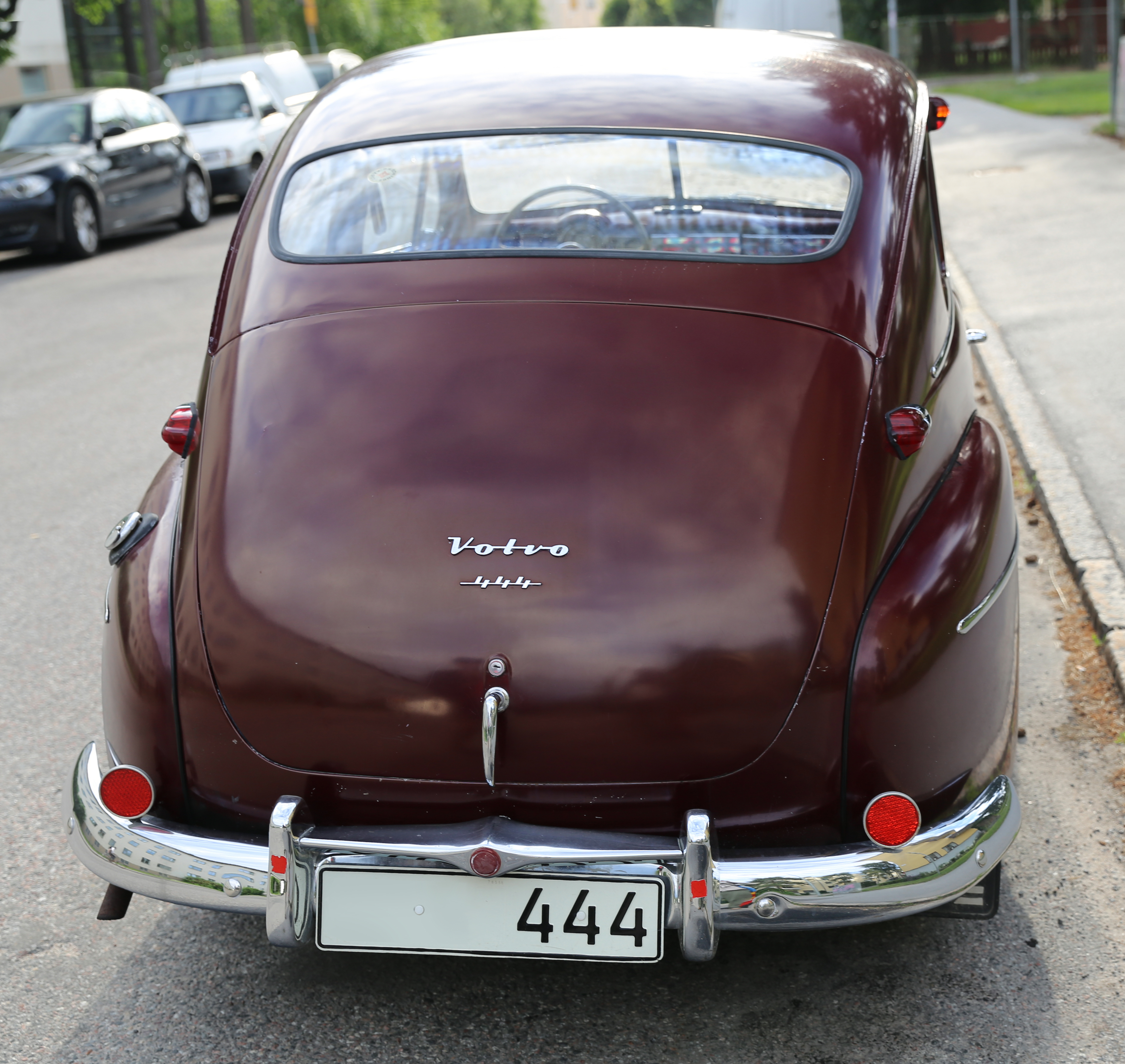 Rear of a 1954 Volvo PV444 HS. This version, with the large rear window and 44hp, was introduced in December 1954. The license plate that ends in "444" is an unlikely coincidence, I presume that the car's 1973 owner (when the new Swedish plates were introduced) must have had some pull at Länsstyrelsen. Nice to see an old PV that is not drowning under the weight of a bunch of senseless extra equipment.